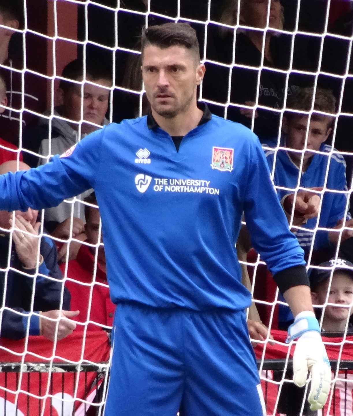 Matt Duke playing for Northampton Town against York City at Bootham Crescent, York on 16 August 2014